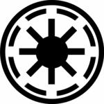 From English wikipedia, under public domain.